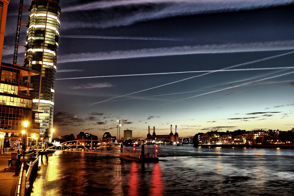 The River Thames at Vauxhall, looking upstream, and showing from left to right the Vauxhall and Nine Elms shorelines, with St George Wharf Tower and the St. George Wharf Thames Clippers river bus pier both prominent. In the centre are the four smokestacks of Battersea Power Station and to the right is the shoreline of Pimlico